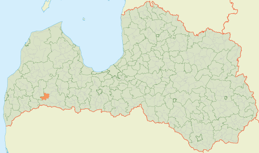 Location of Pampāļi Parish in Latvia